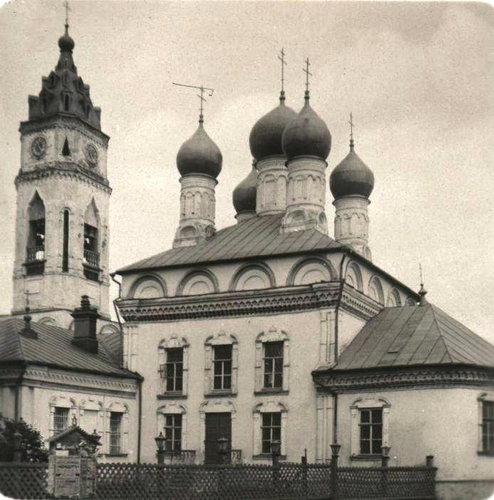 Annunciation Church (Tula)